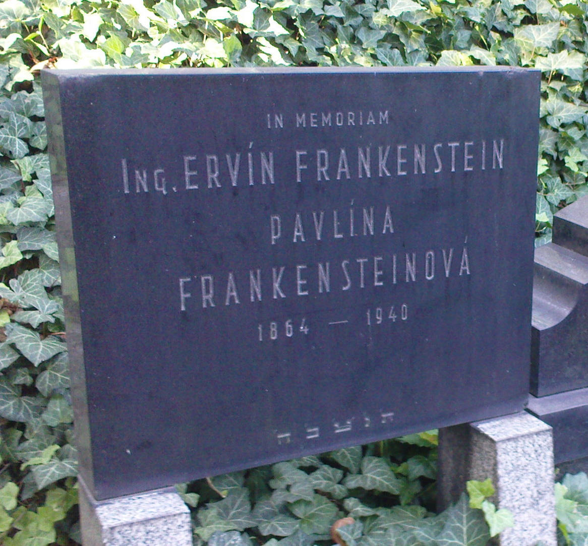 Grave of Ervín Frankenstein, New Jewish Cemetry, Izraelská Street, Prague